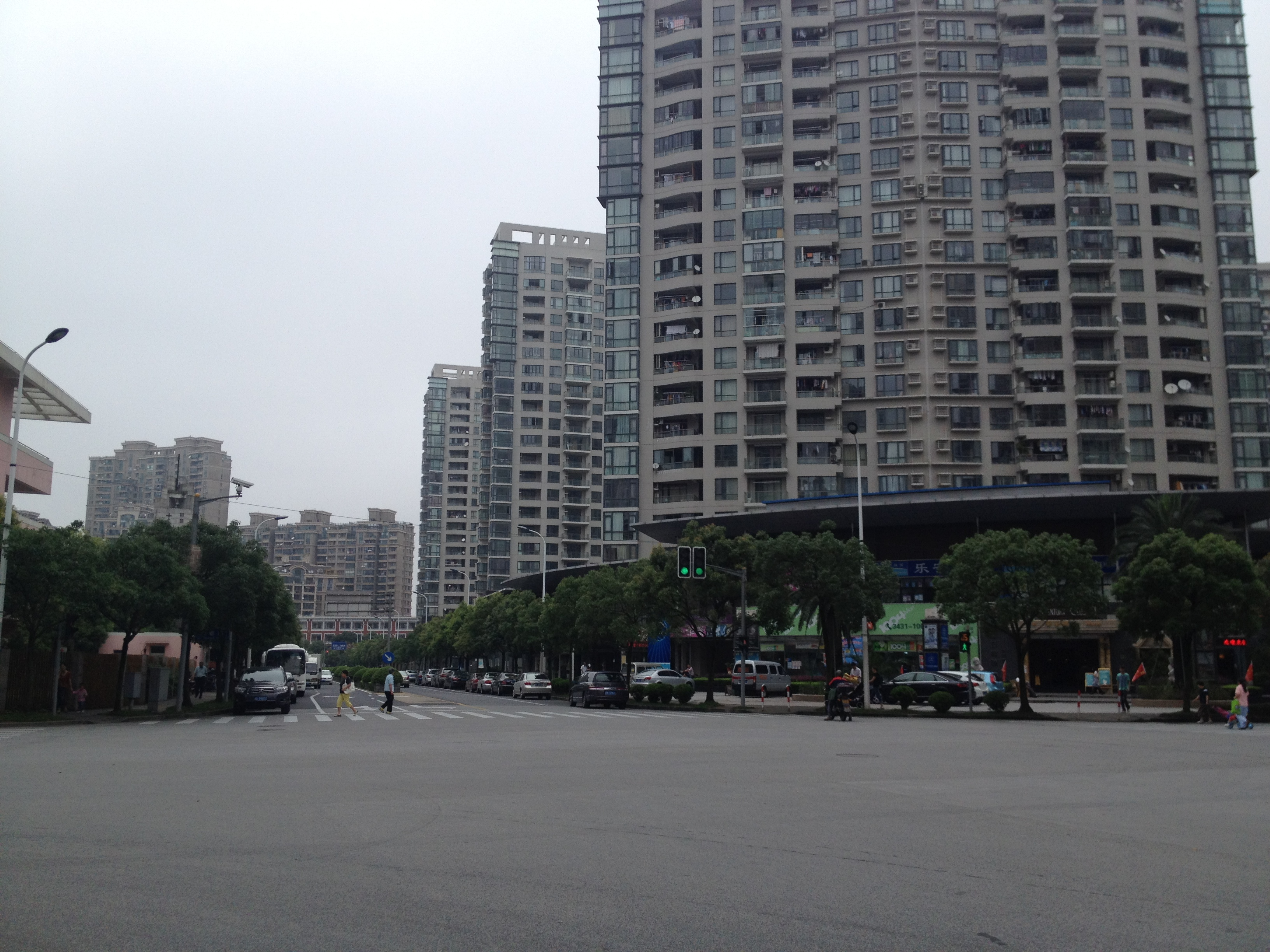 Zihuai Road Shanghai